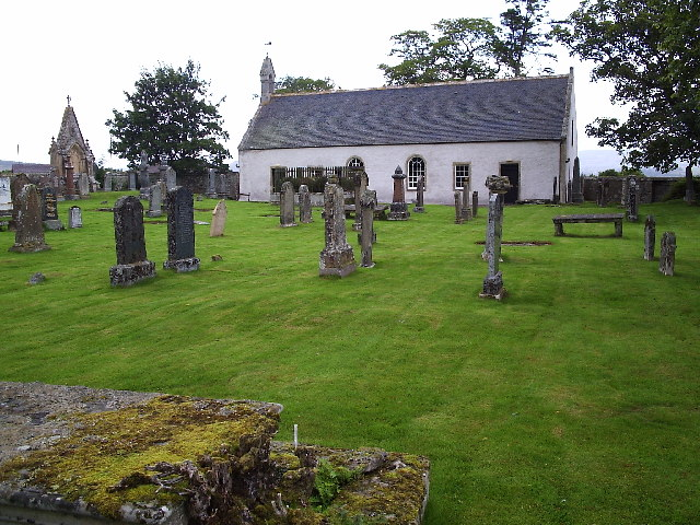 Kincardine Church near Ardgay